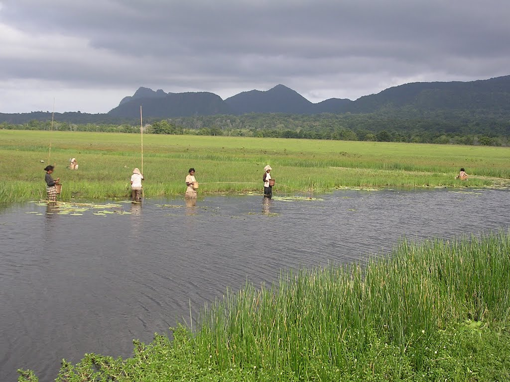 Dangerous fishing (Estuarine Crocodiles to 4 m present in water) - women from Malahara and Mehara villages fish for catfish and Tilapia along the Irasiquiro River, close to Ira Lalaro lake